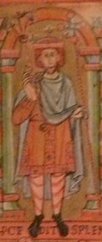 Vratislaus II of Bohemia